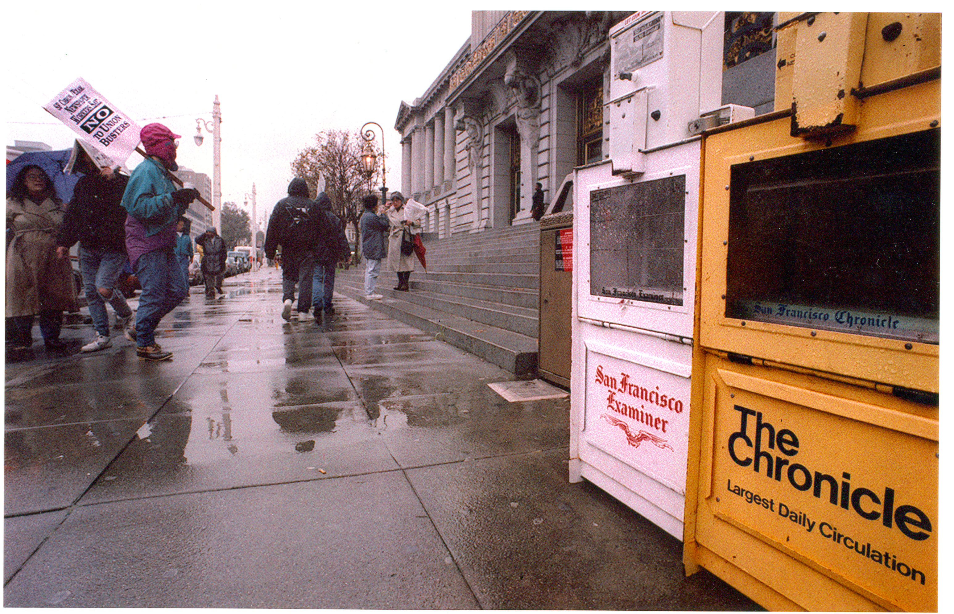 Members of CNU (Conference of Newspaper Unions) protest in front of San Francisco's City Hall on November 5, 1994 at Polk and McAllister Streets. The empty news racks of the two city papers reflect the result of the 4 day old strike which would last for 7 more days. Photograph by Nancy Wong